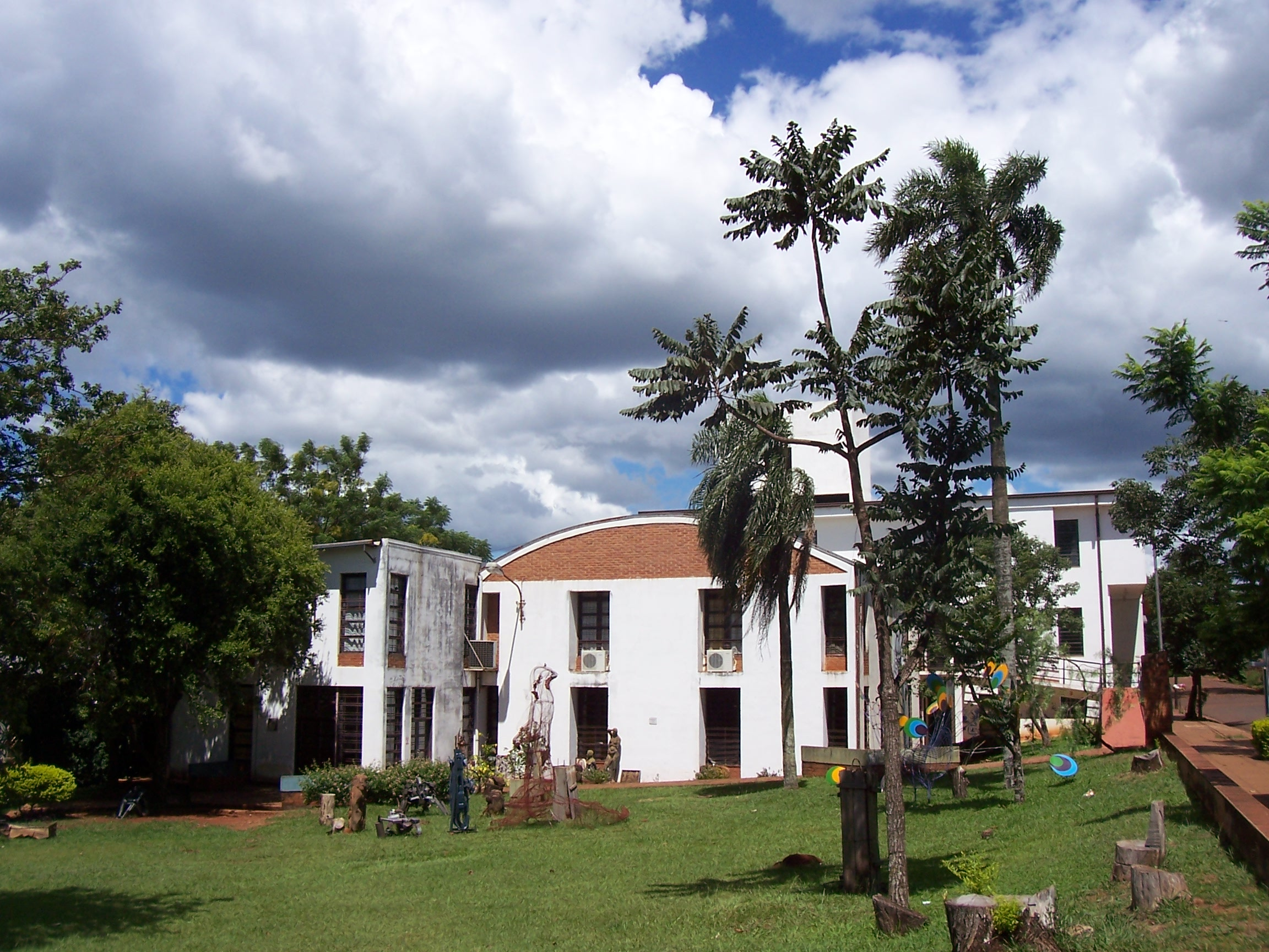 The Faculty of Arts of the National University of Misiones (UNaM) in Oberá.